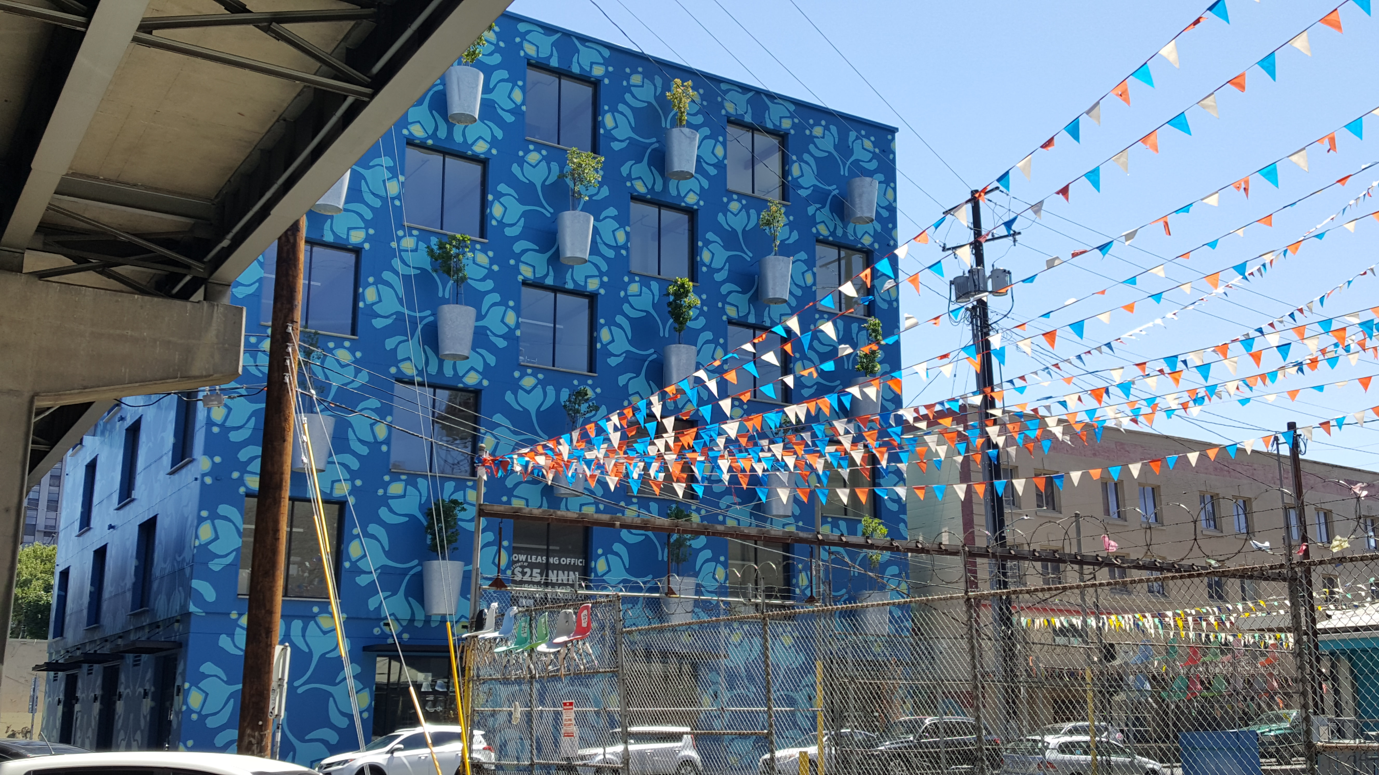 Portland, Oregon, July 25, 2020